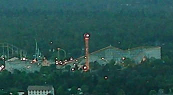 Mexico City from Torre Mayor image is close-up of Montaña Rusa roller coaster